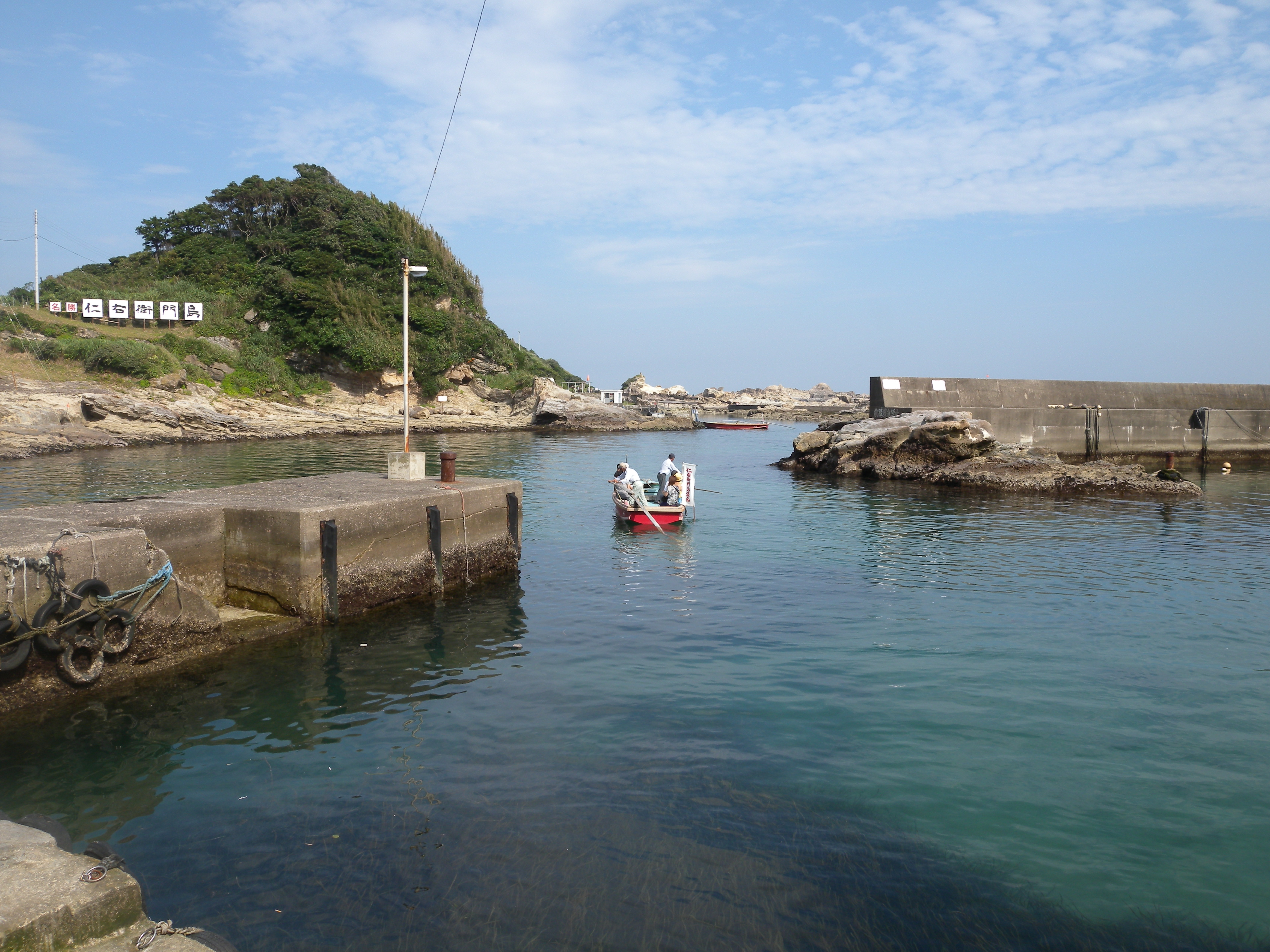 Niemonjima (upper left) seen from Hamanabuto fishing port, looking east. Nikon Coolpix P6000